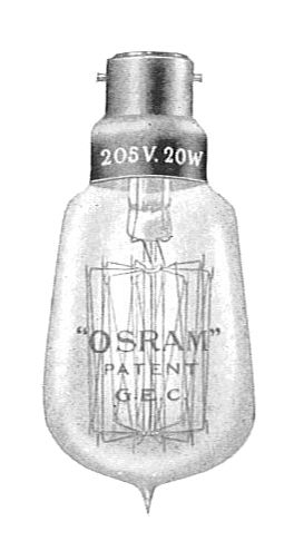 Osram lamp, 1910, pear shaped (Forty Years of Electrical Progress).jpg